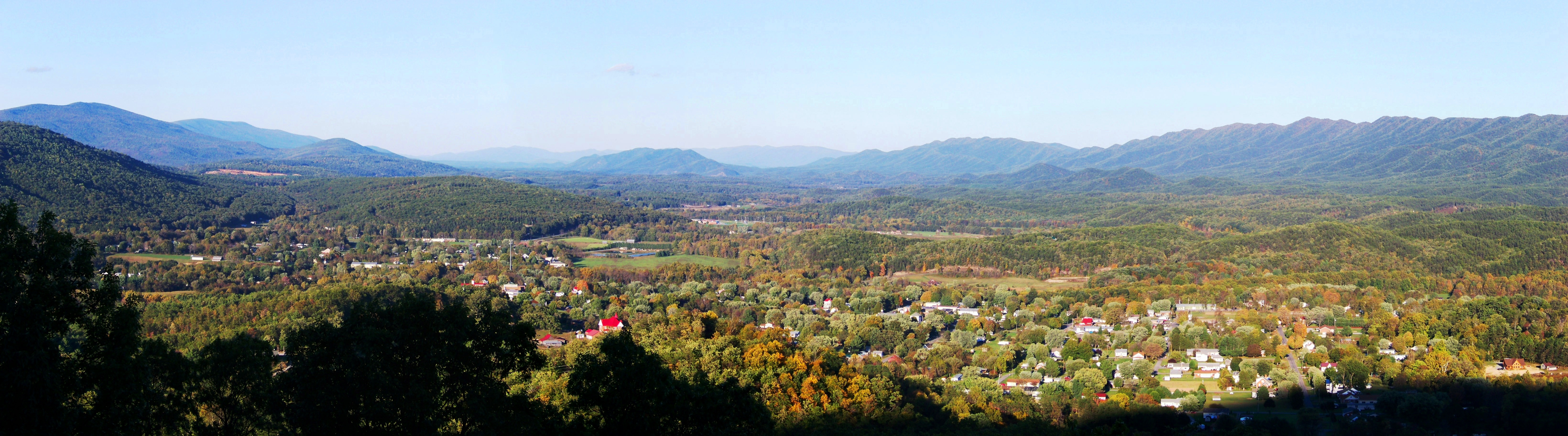 New Castle, Virginia - Panorama